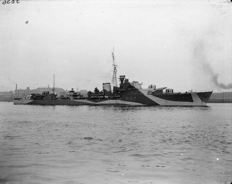 Photograph of British destroyer HMS Grenville underway on the River Tyne.